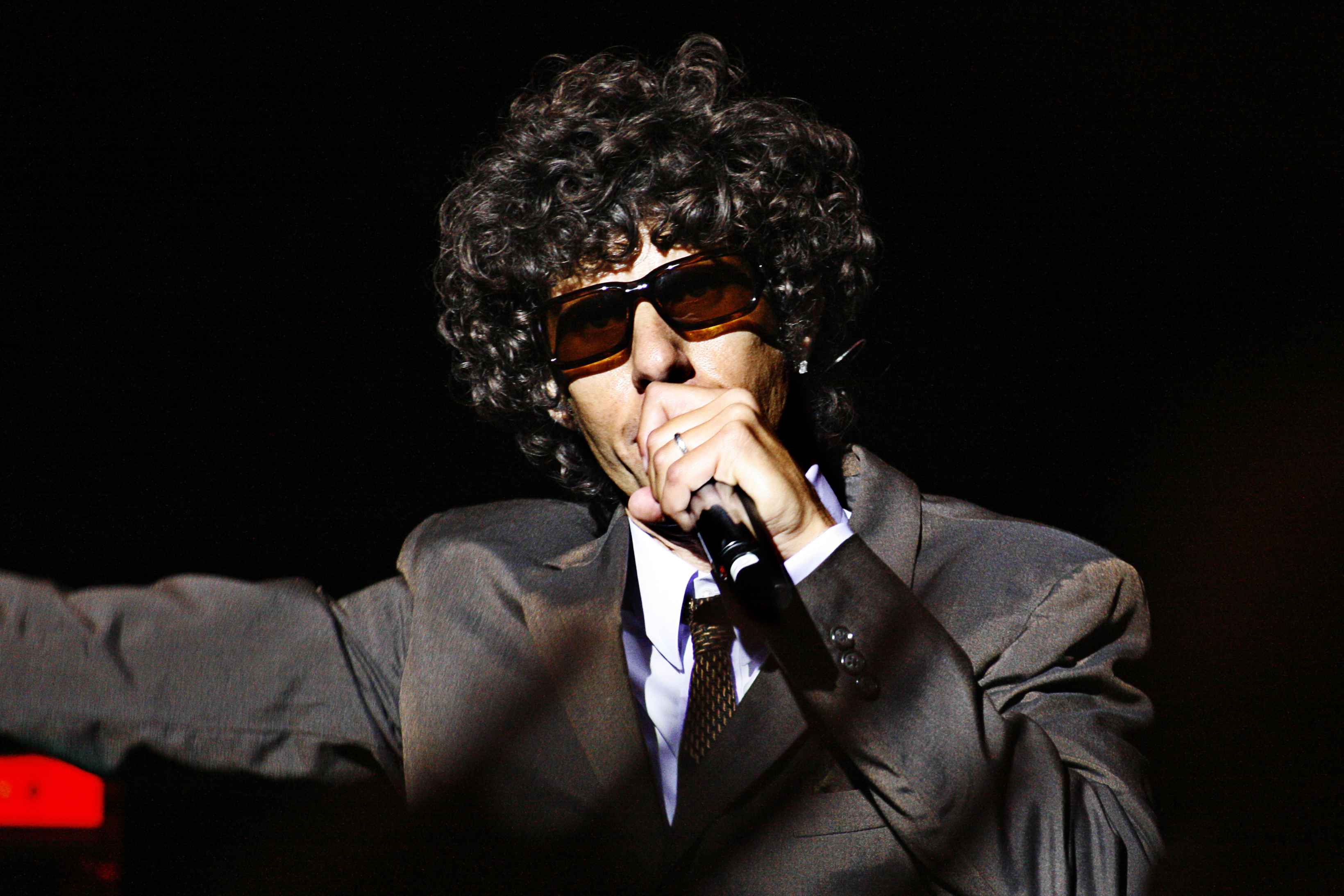 Michael Diamond, Bestie Boys at Brixton Academy - 05/09/07